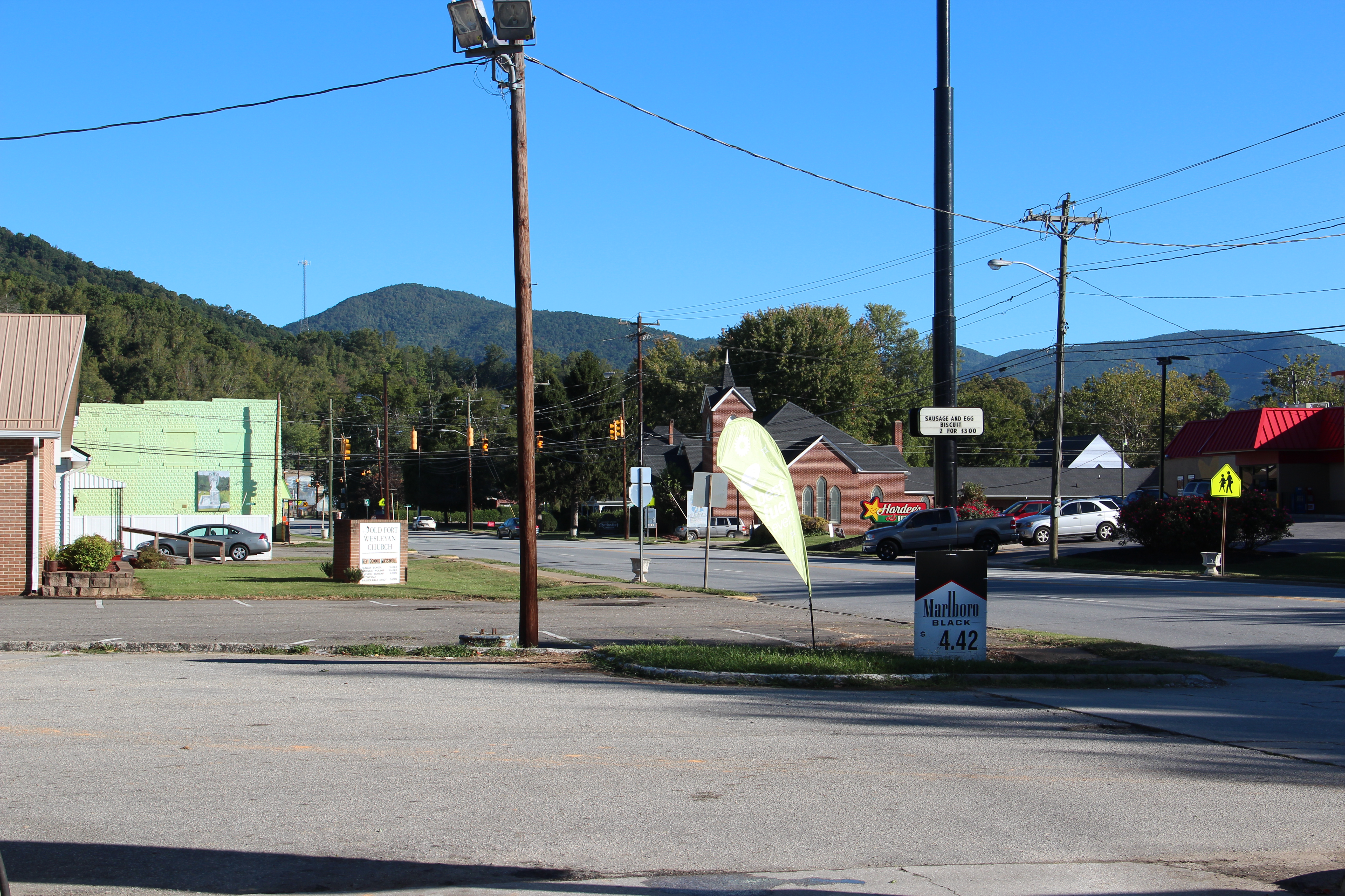 Catawba Avenue, Old Fort, NC Oct 2016